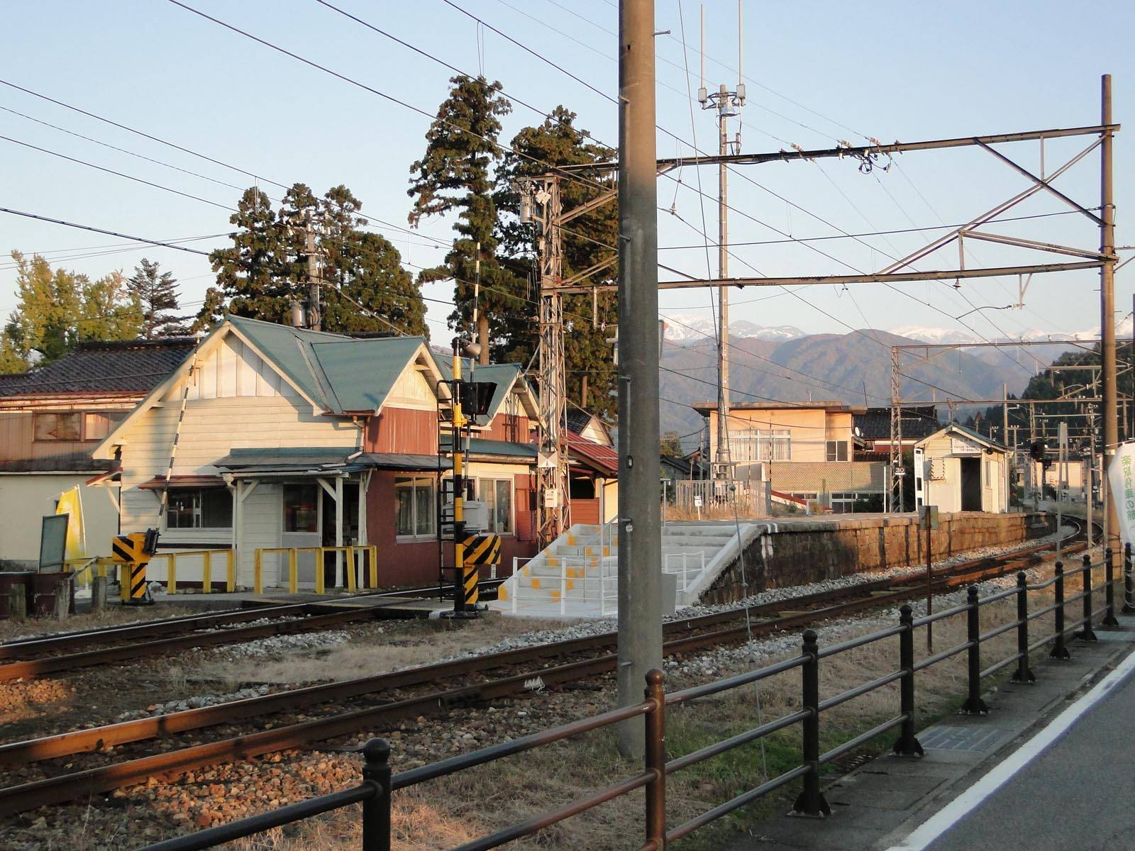 Urayama Station building, platform and level crossing